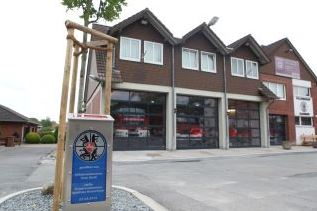 Das Gamsener Feuerwehrhaus steht an dieser Stelle seit 1876.